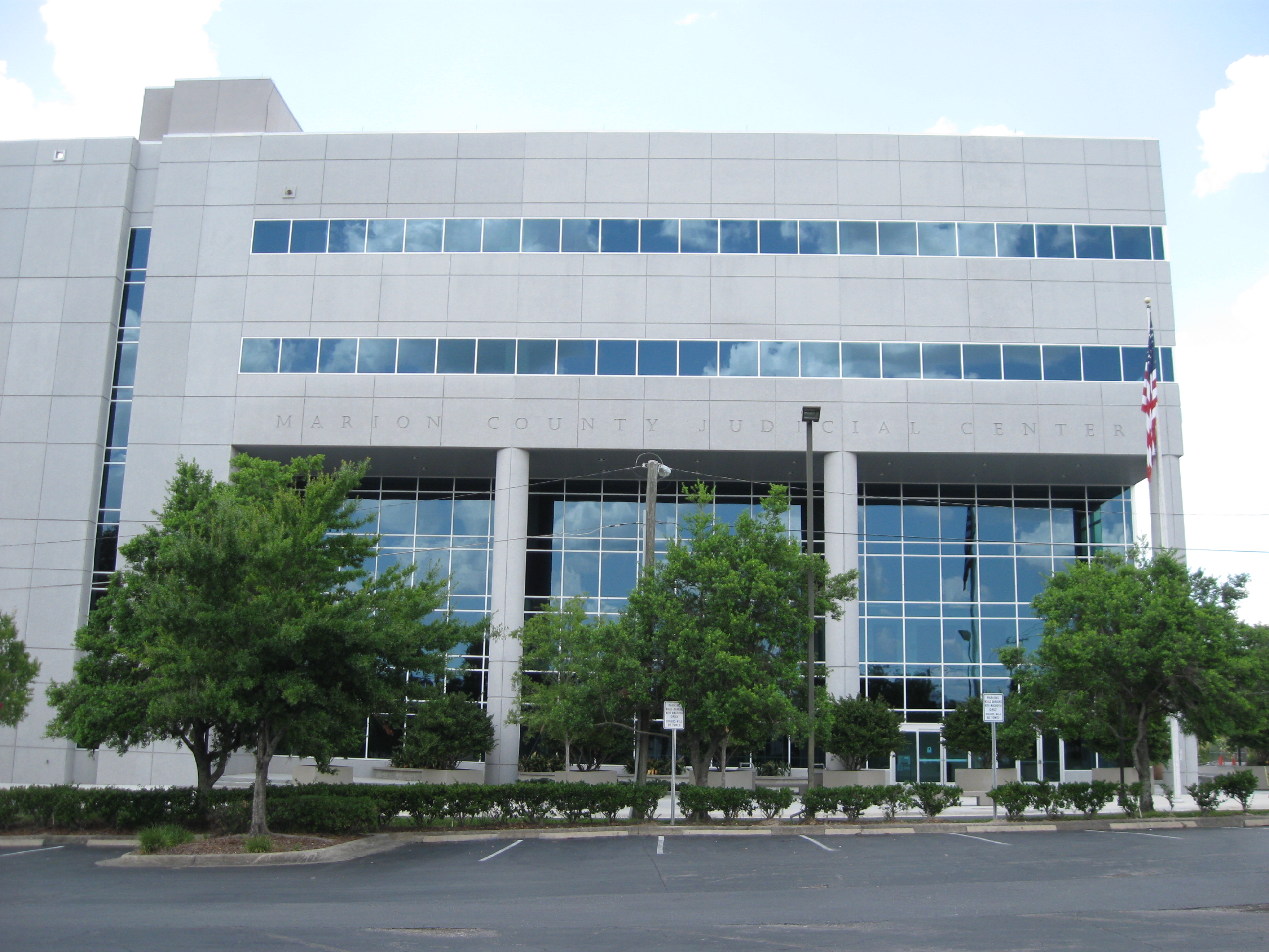 Courthouse, Marion County, Ocala, FL